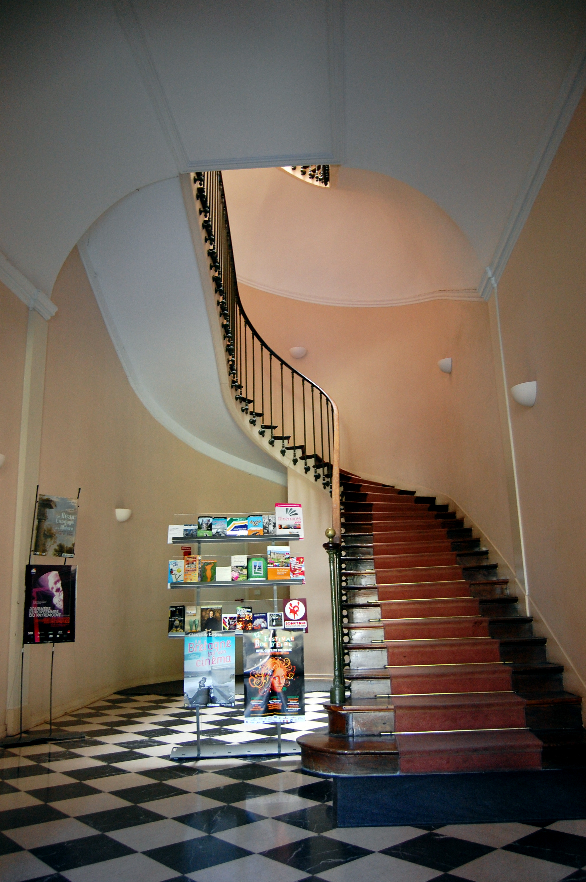 Main staircases of the Hôtel de Blossac